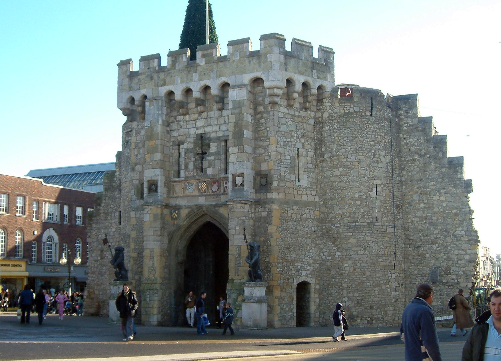 Bargate, Southampton, Hampshire, from the North